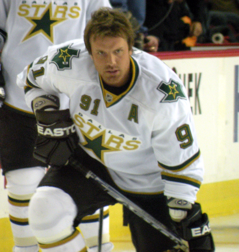 Dallas Stars forward Brad Richards prior to a National Hockey League game against the Calgary Flames, in Calgary.